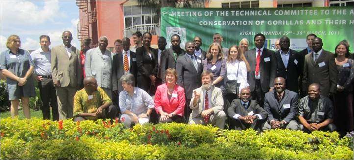 First meeting of Technical Commitee to the Gorilla Agreement, Rwanda, March 2011.